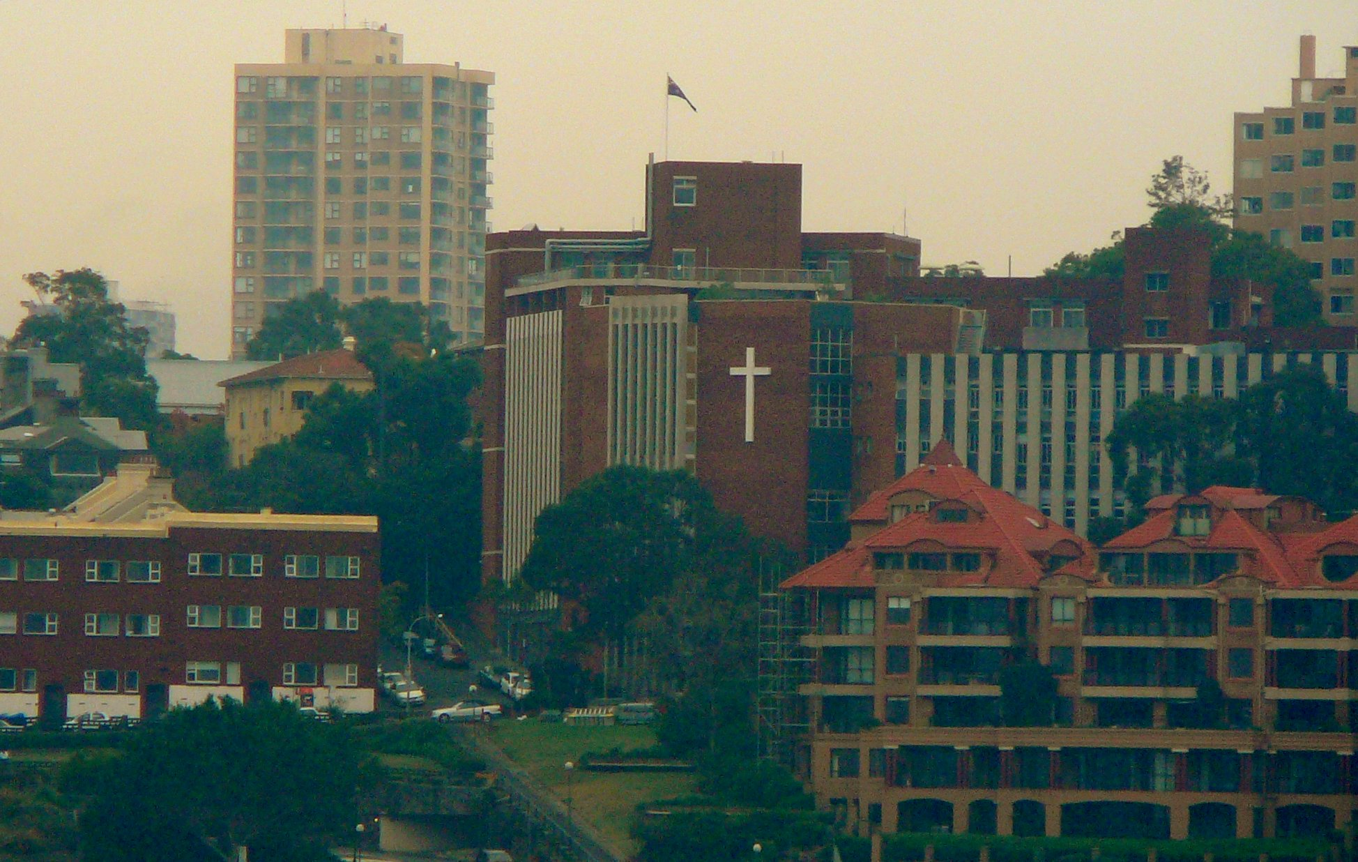 A picture of St Aloysius College taken from Circular Quay